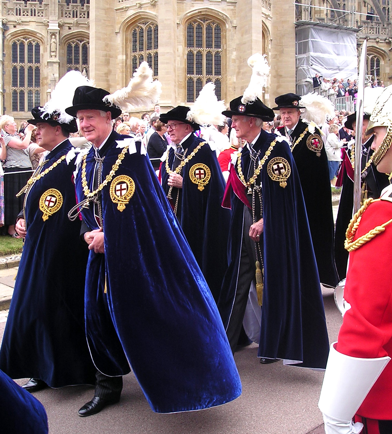 Knights Companion of the Most Noble Order of the Garter, in procession to St George's Chapel, Windsor Castle for the annual service of the Order of the Garter.